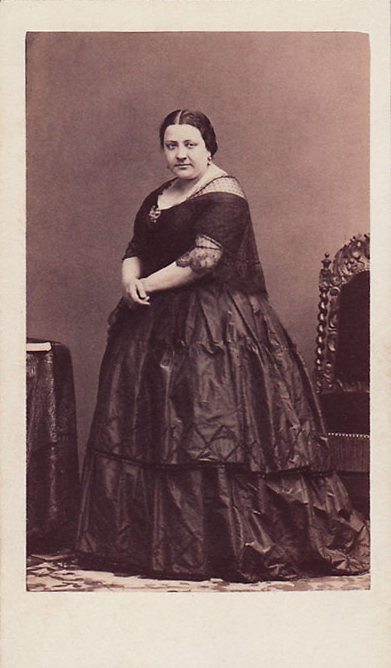 Adolphe Eugène Disderi (1810-1890) - The Italian contralto Opera singer Marietta Alboni (1826-1894).